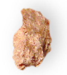 Another version of the picture Image:Yuksporite Hydrous sodium potassium calcium barium titanium aluminum iron silicate Khibiny Massif Kola Peninsula Russia 1960.jpg, picture size edited by Rhanyeia.